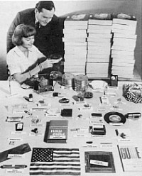 Contents of Time Capsule from 1964 New York World's Fair